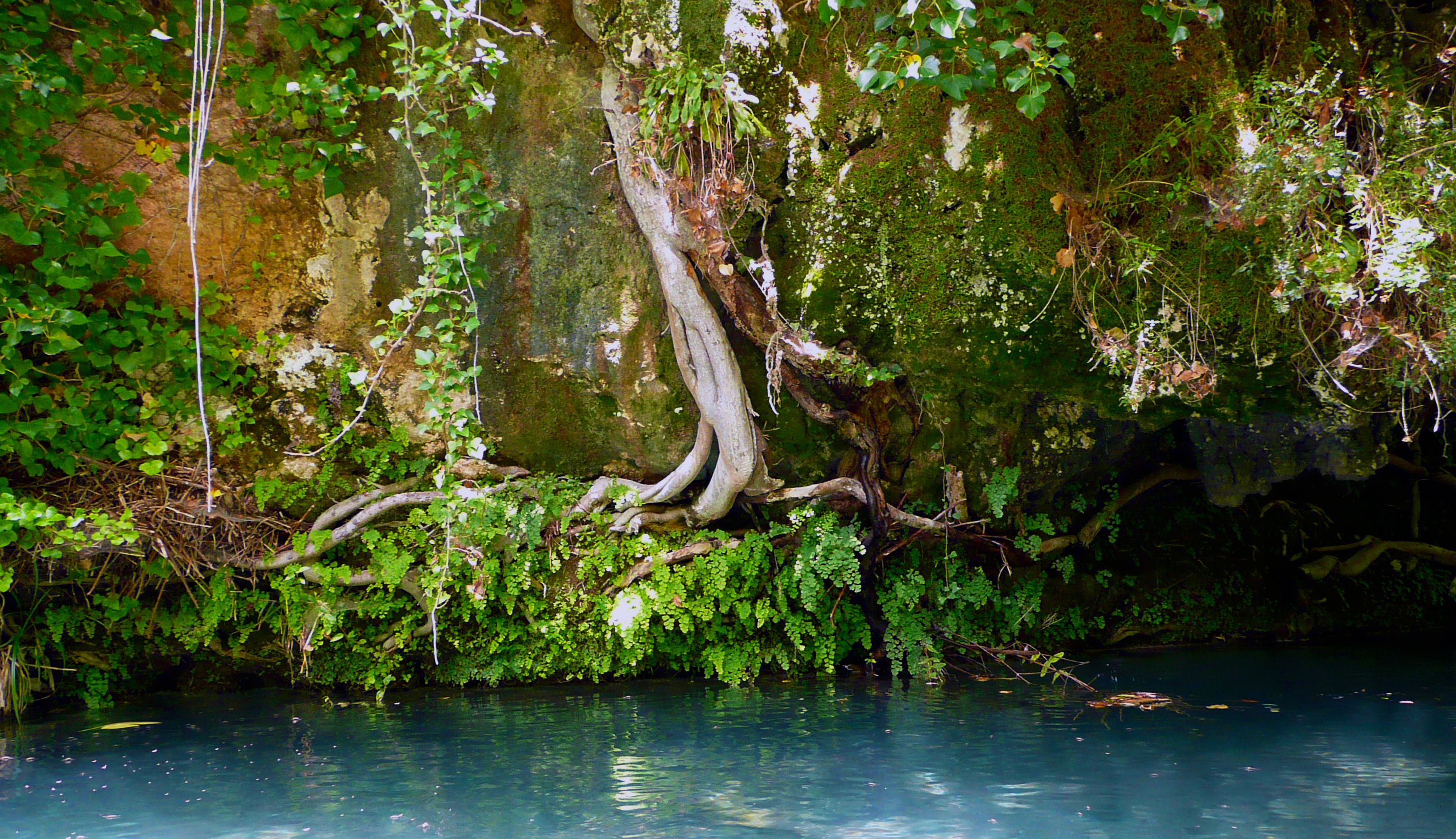 Riverside Calcinara of Pantalica